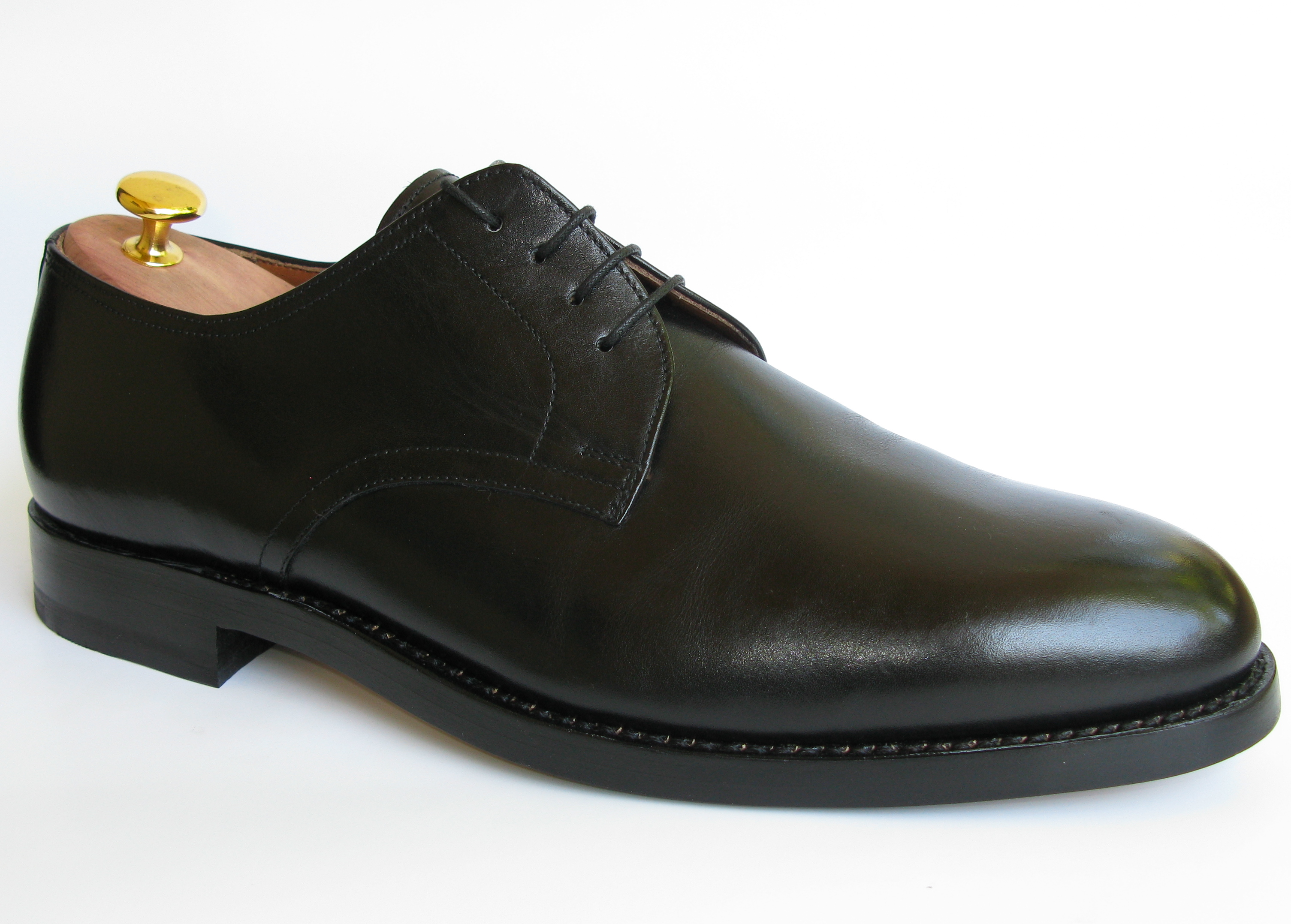 Black Derby Shoe with rubber sole